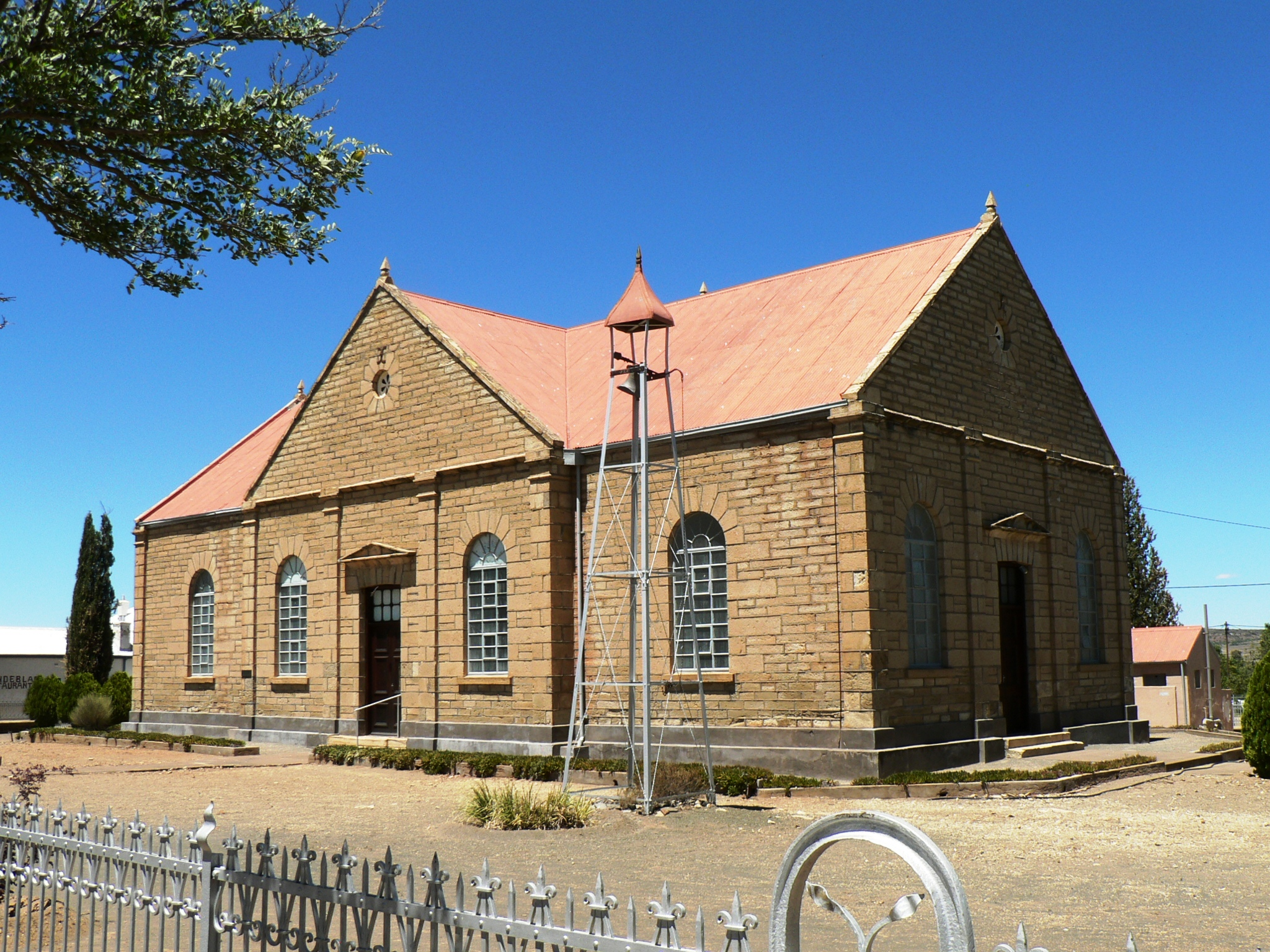 This media shows a South African Protected Site with SAHRA file reference 9/2/071/0005.